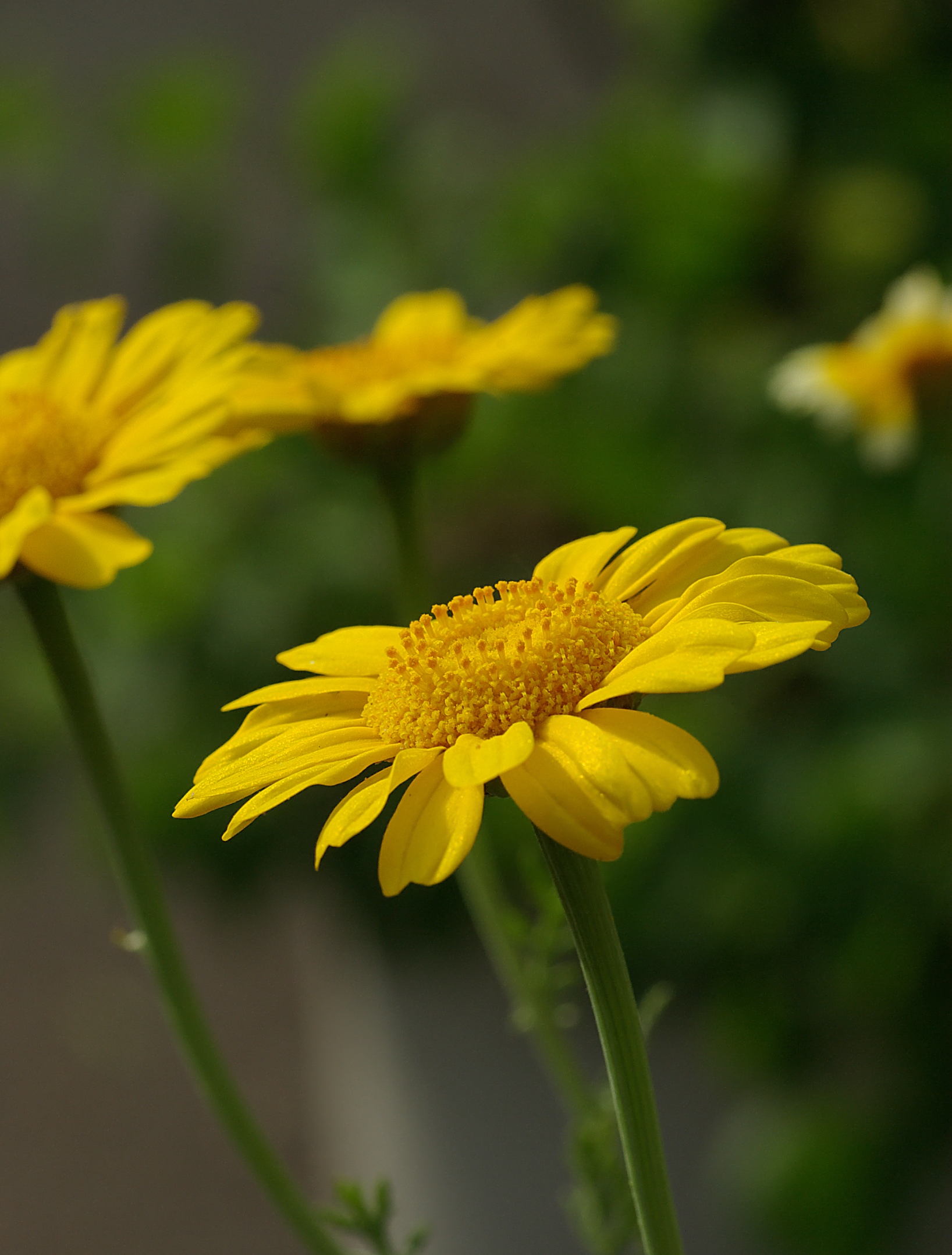 Garland chrysanthemum